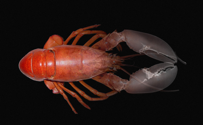 Lobster x-ray